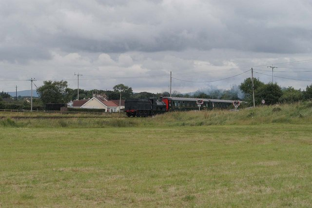 Macfin Level Crossing GSWR 186 passing Macfin level crossing working the Portrush Flyer & the Dalrida Railtour from Ballymoney to Portrush.